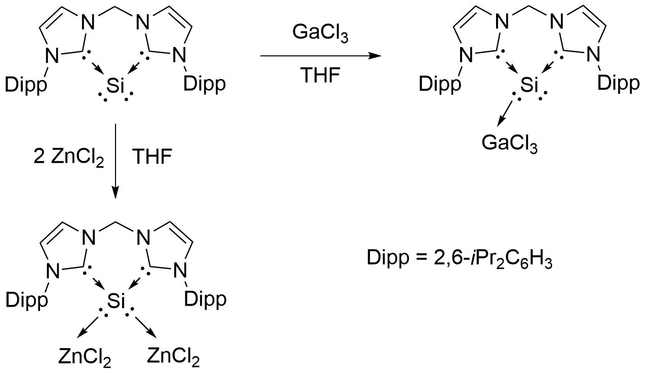 Reaction schematic of Lewis acid adducts with bis-NHC stabilized silylone species, as described in Figure 4 of Yao et al. (